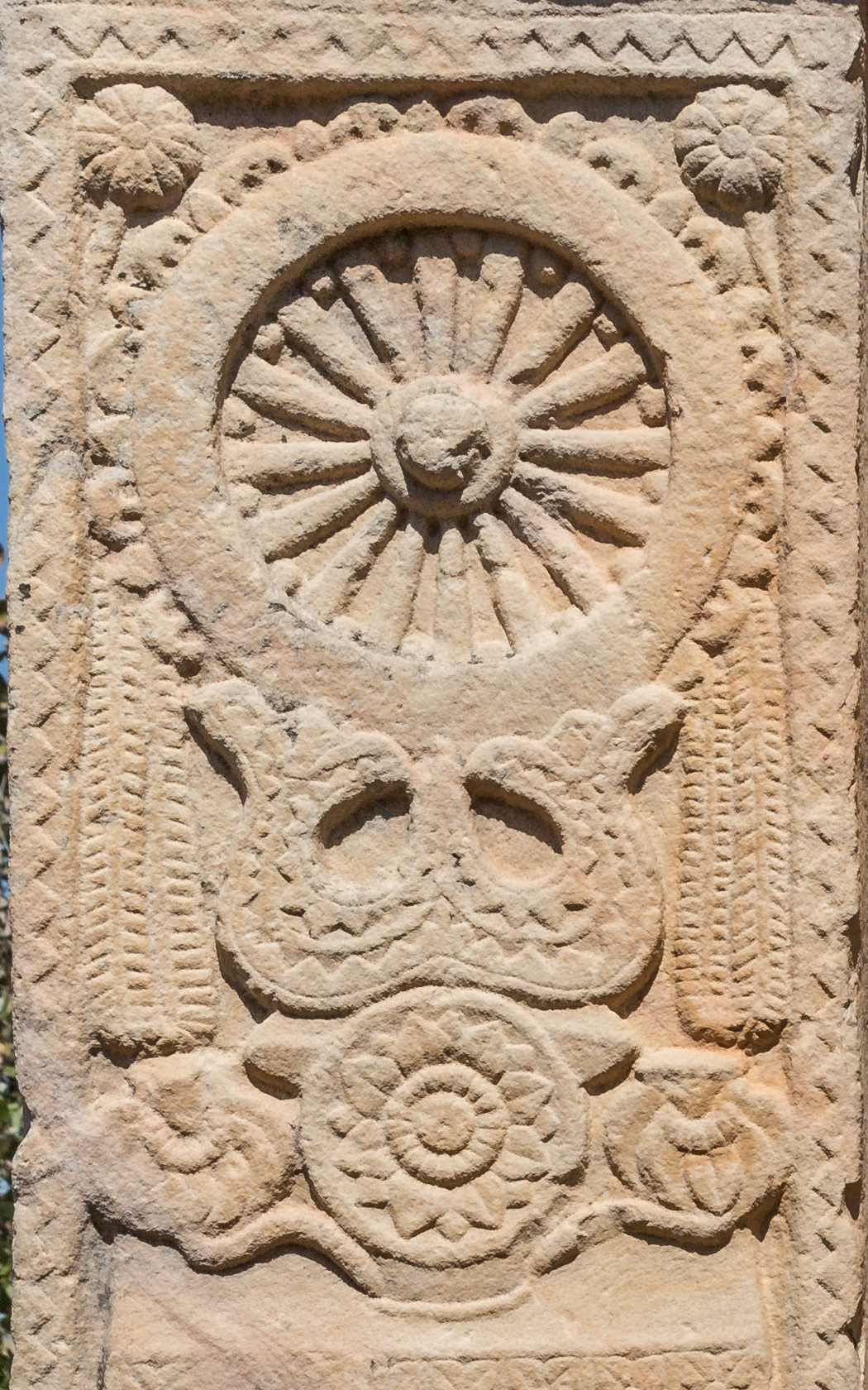 Sanchi Stupa number 2